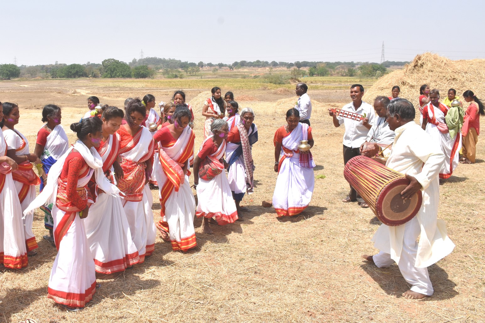 Sarna People in Ranchi (Jharkhand) in their traditional attire